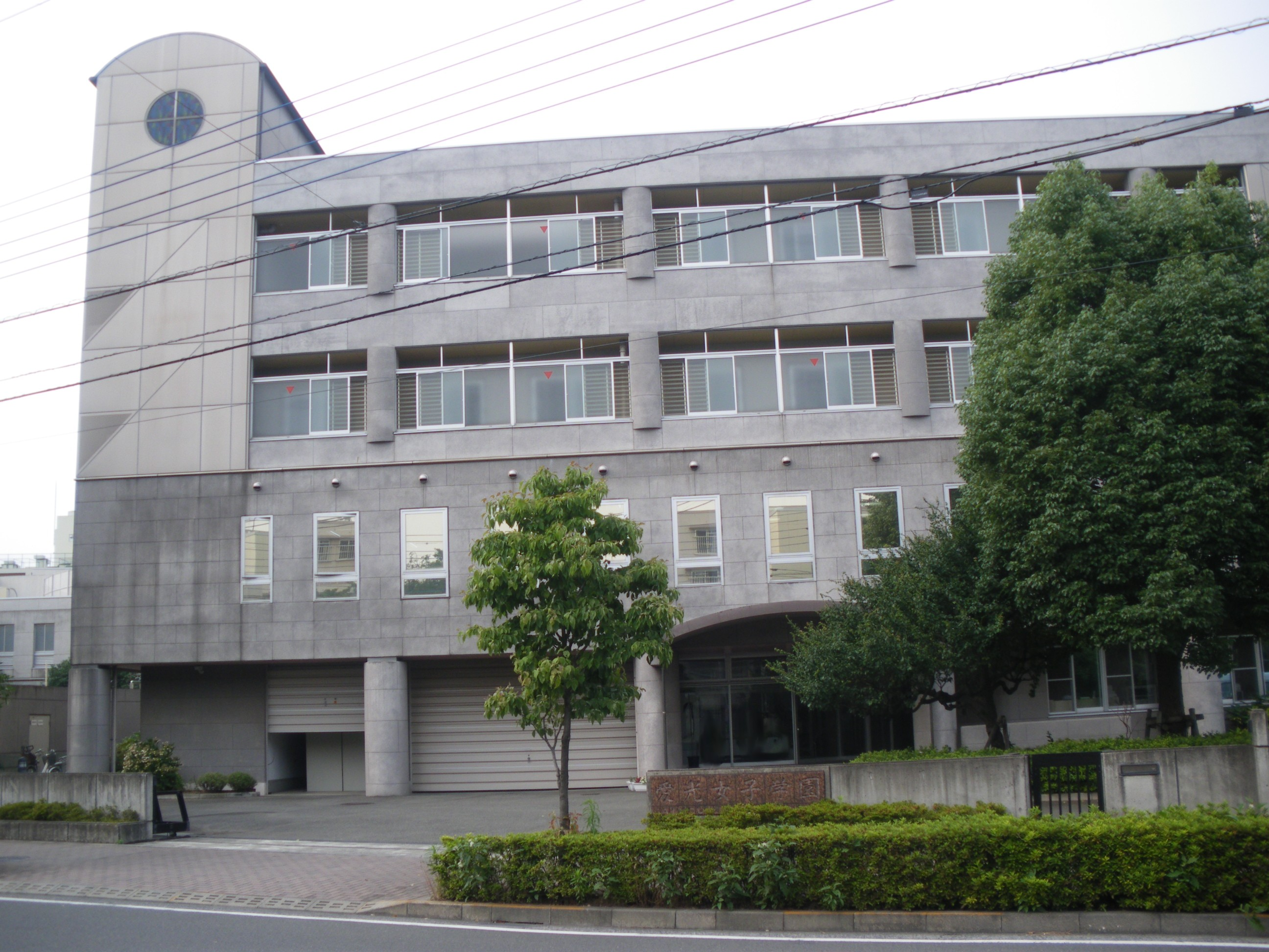 Aiko Joshigakuen(girl's reformatory school)(Nishinogawa,Komae,Tokyo)